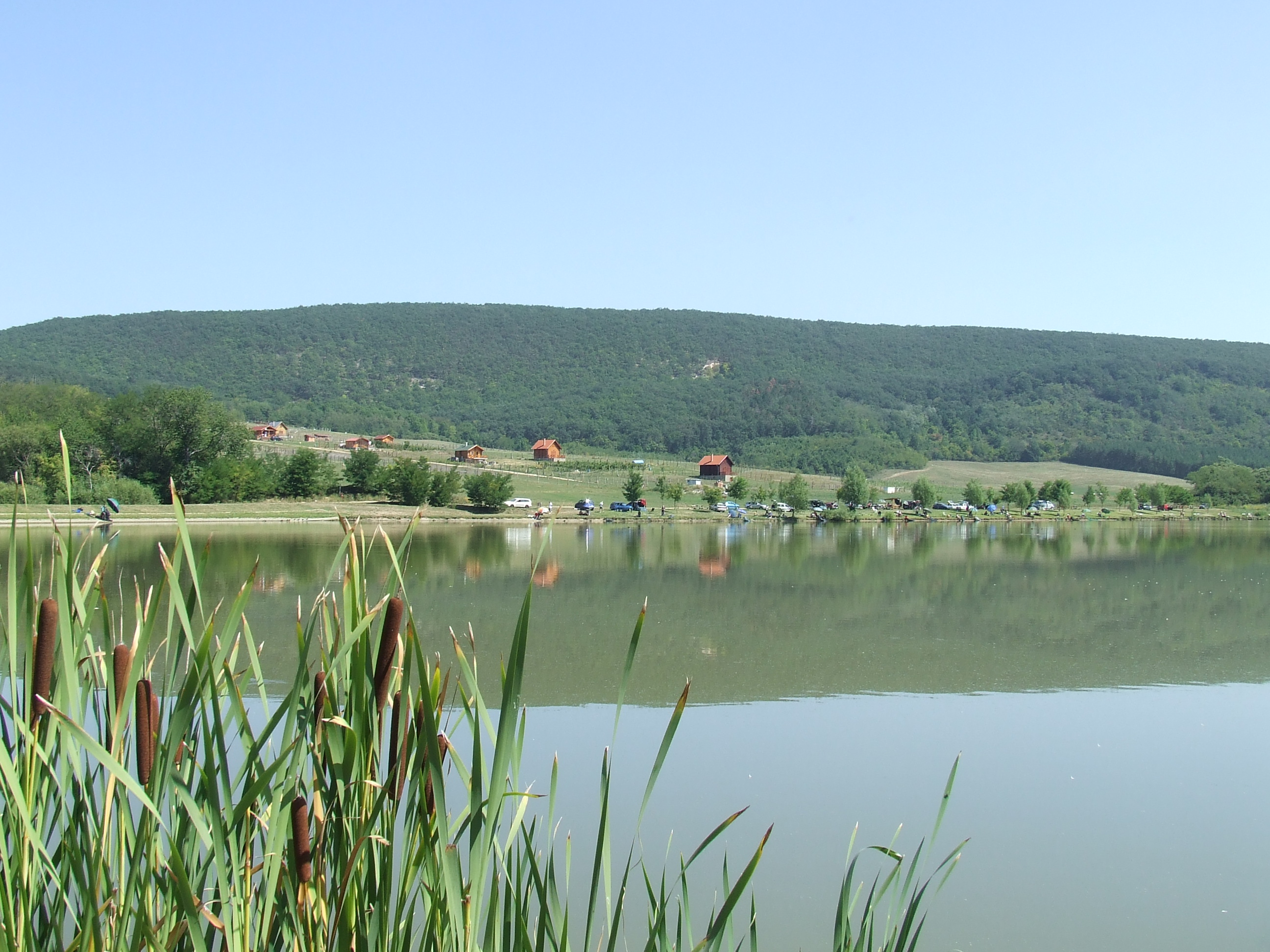 Hungary, Alsópetény, Cser lake